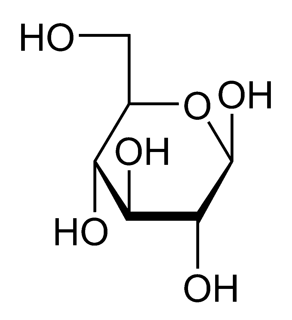 Haworth formula of beta-D-glucose